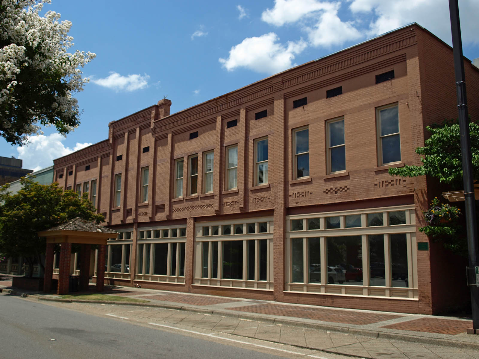 The Everett Building in Huntsville, Alabama, listed on the National Register of Historic Places.